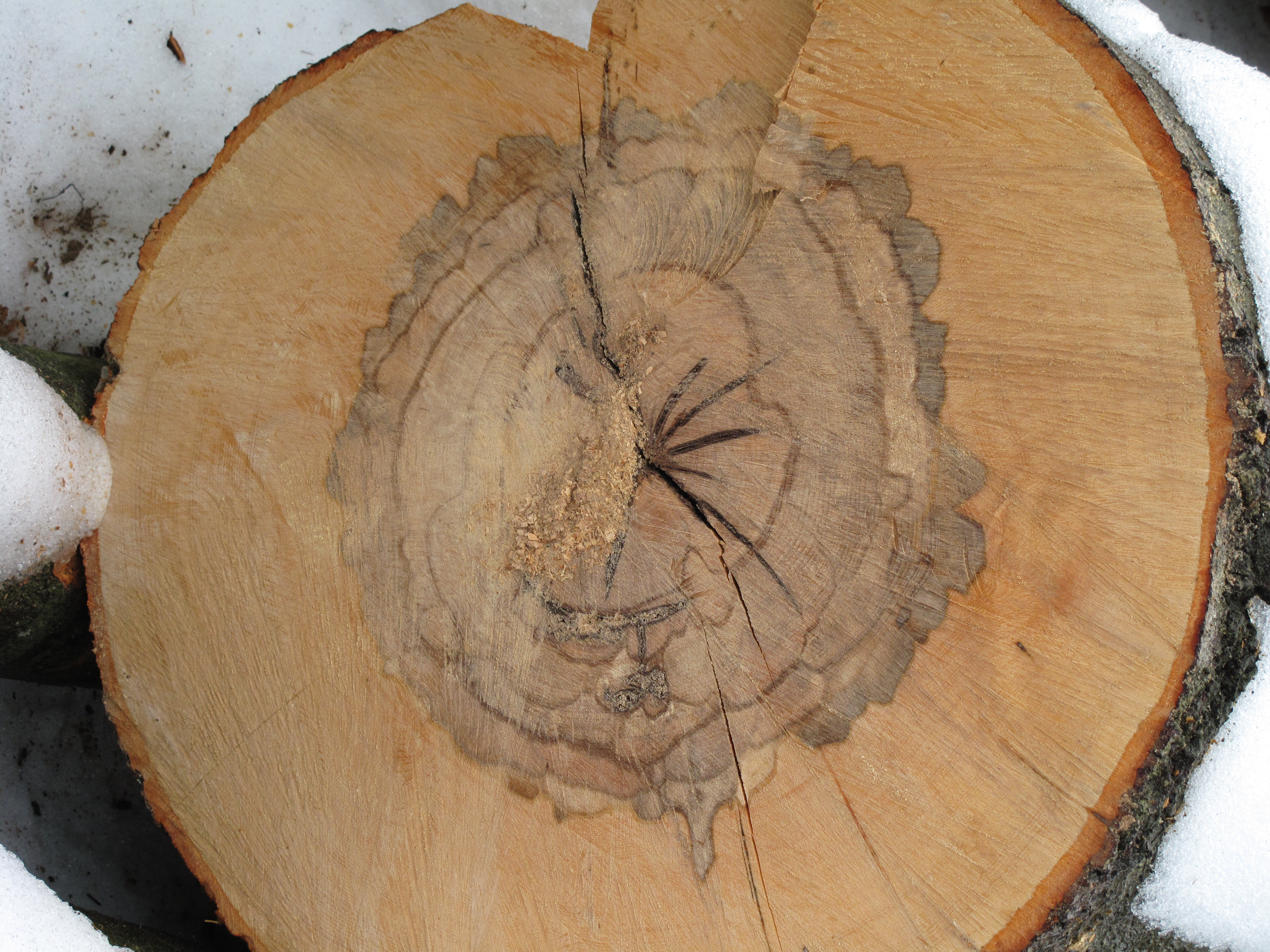 Beech growth rings in Hornopožárský Forest, Czech Republic.